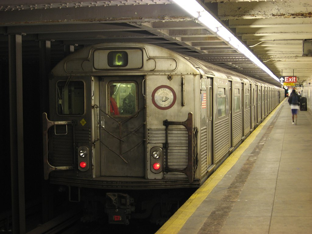 A "C" train at the Kingston/Throop Avenues station, bound for the Euclid Avenue station